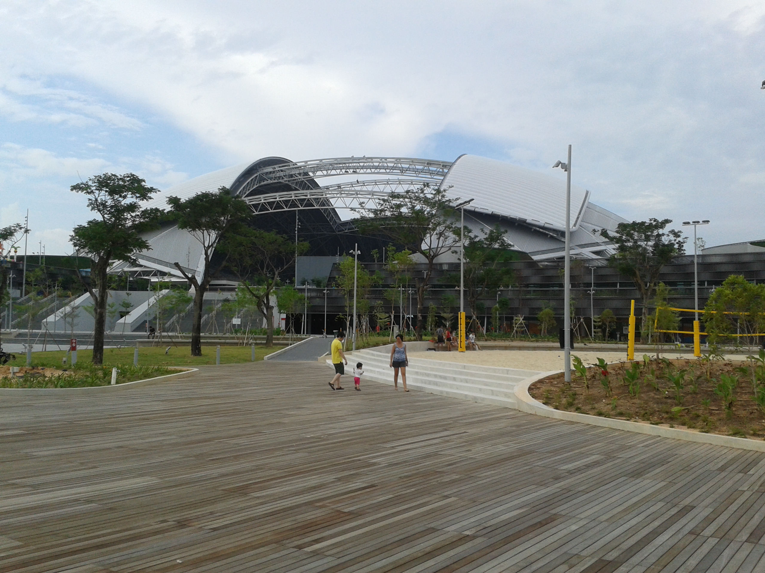 Singapore Sports Hub from boardwalk